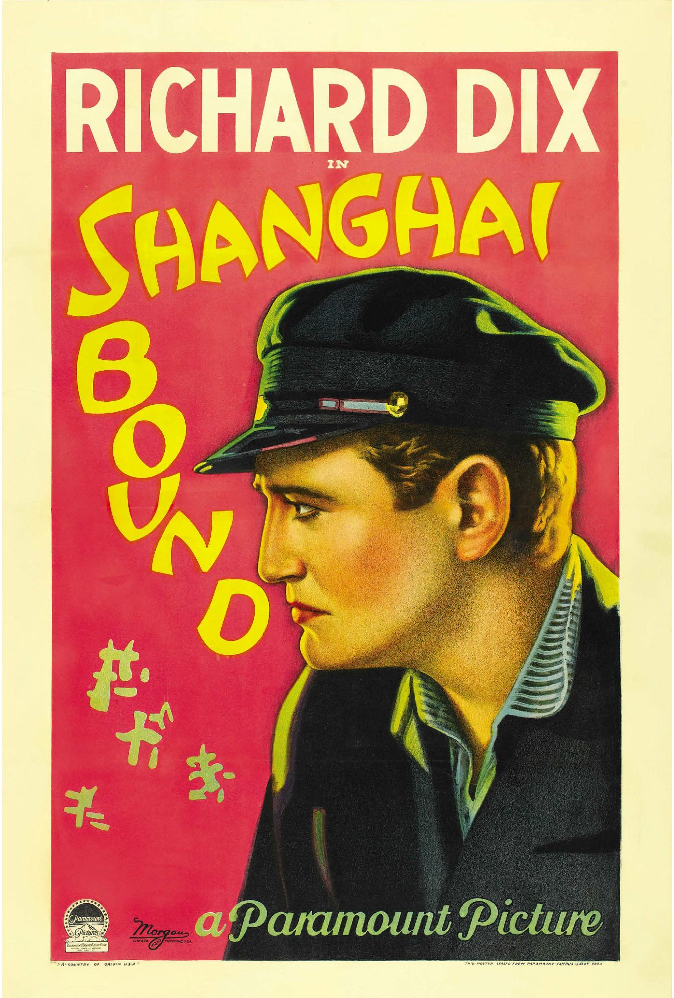 Poster for the American adventure film Shanghai Bound (1927). There are no copyright marks. At bottom left is 1-A (poster style 1-A) Country of origin USA. At bottom right is This poster leased from Paramount Famous Lasky Corp.